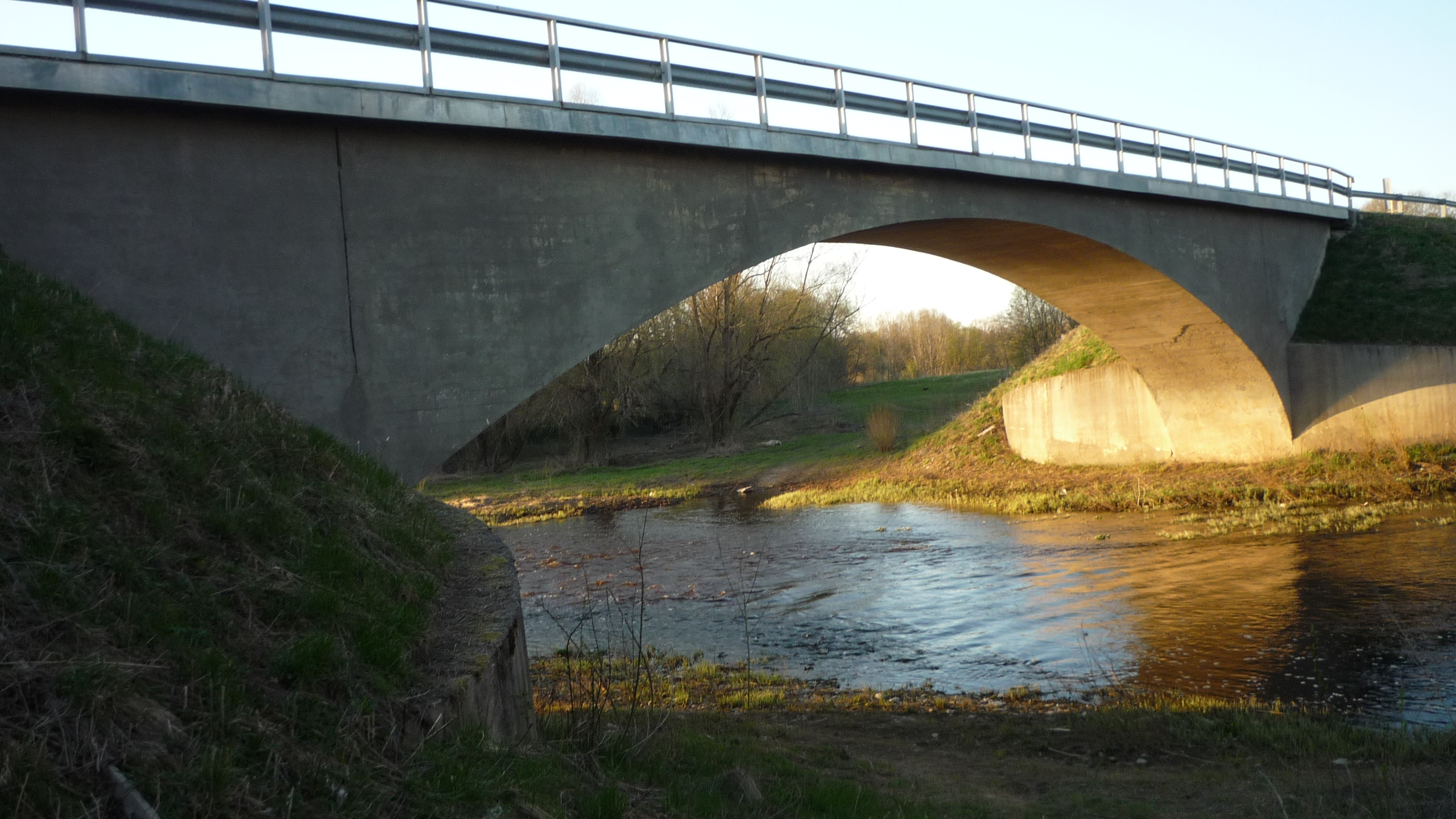 Rumba old railway bridge, now used as a normal road bridge. Lihula parish, Lääne county, Estonia.